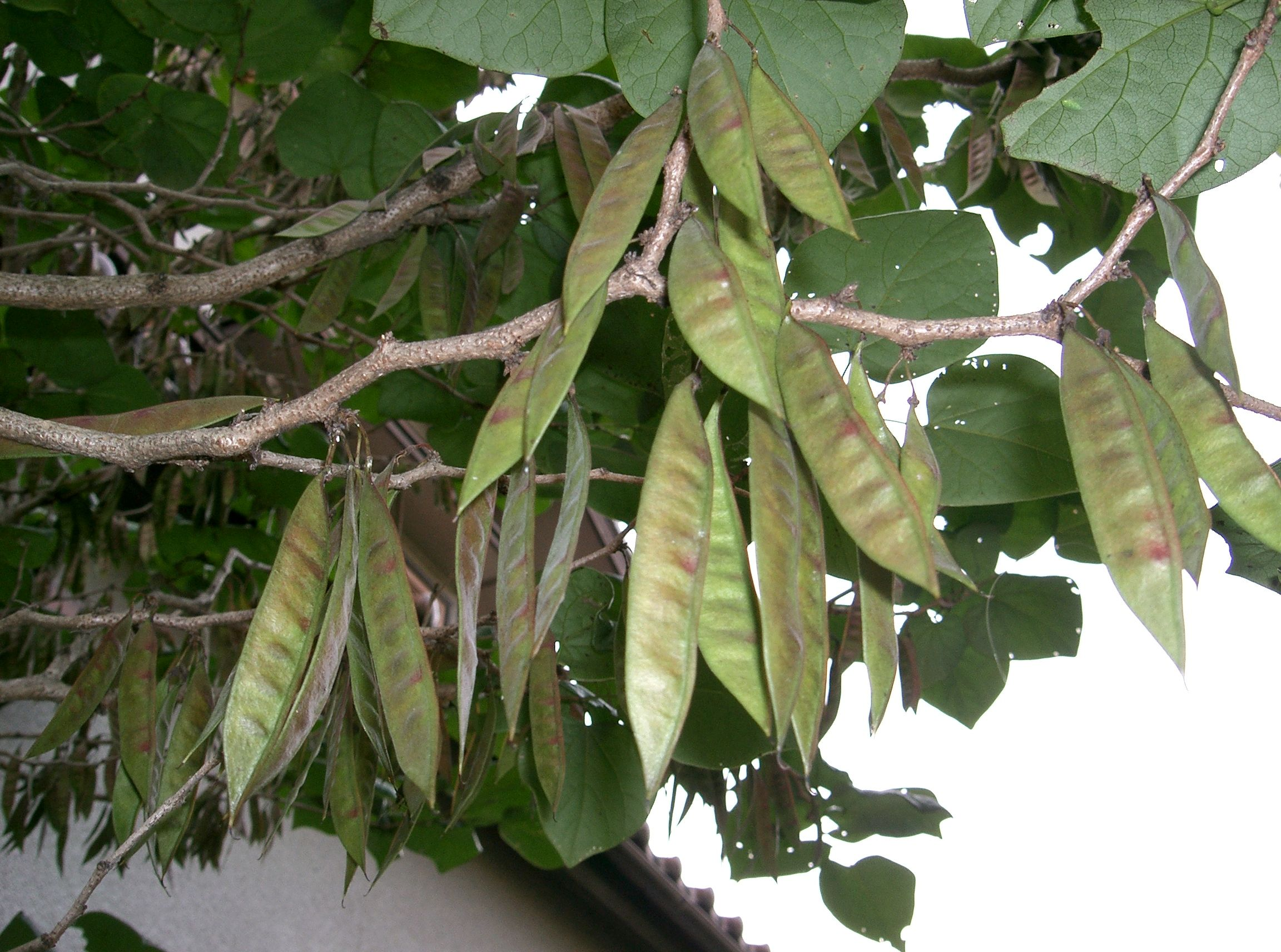 Cercis chinensis